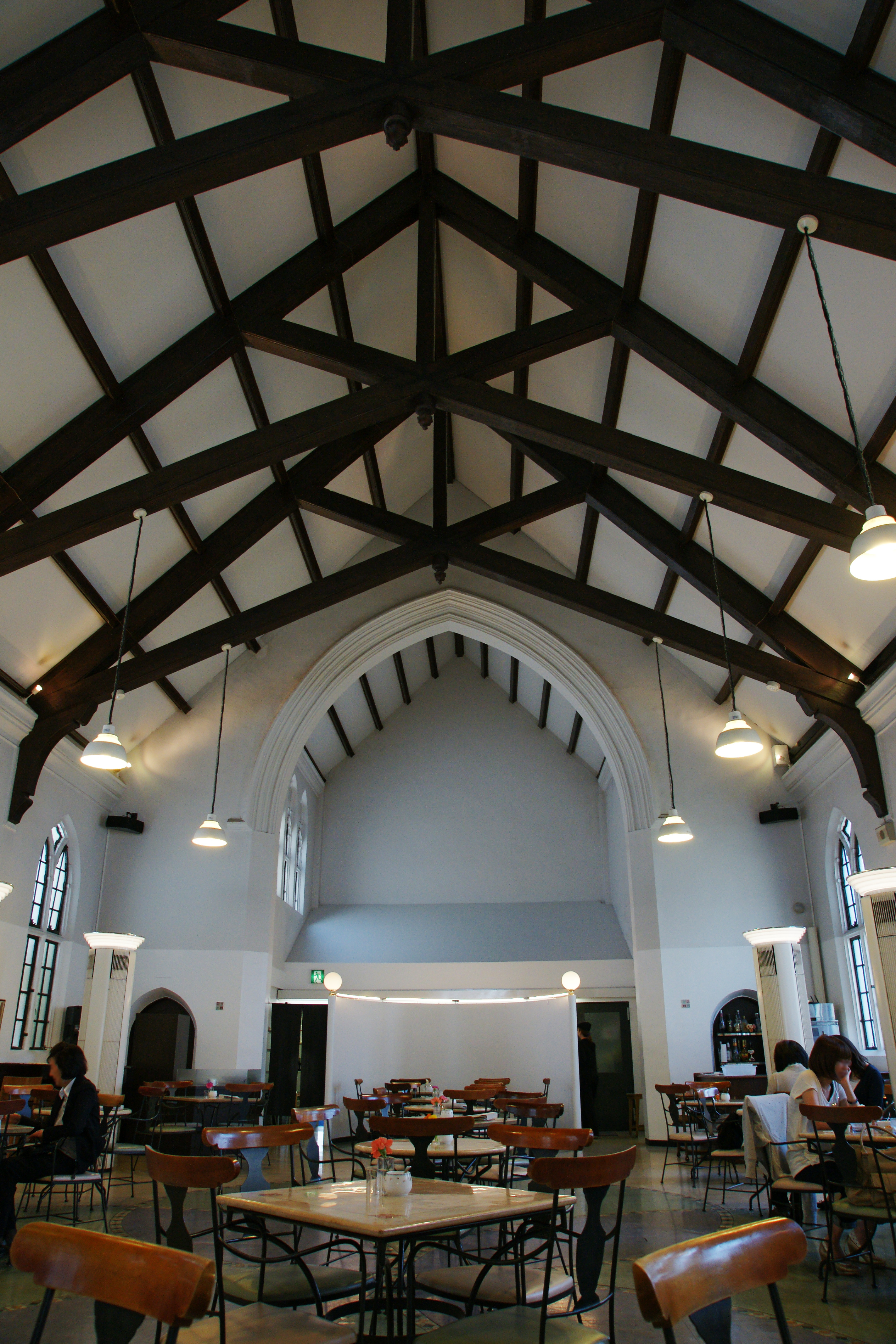 Former Kobe Union Church (Cafe FREUNDLIEB) in Kobe, Hyogo prefecture, Japan